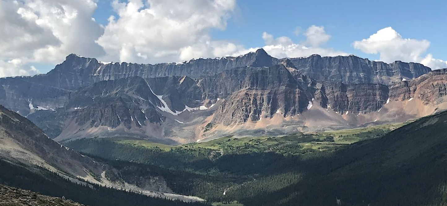 Evelyn Peak from northeast in Bald Hills. Jasper Park, Canada